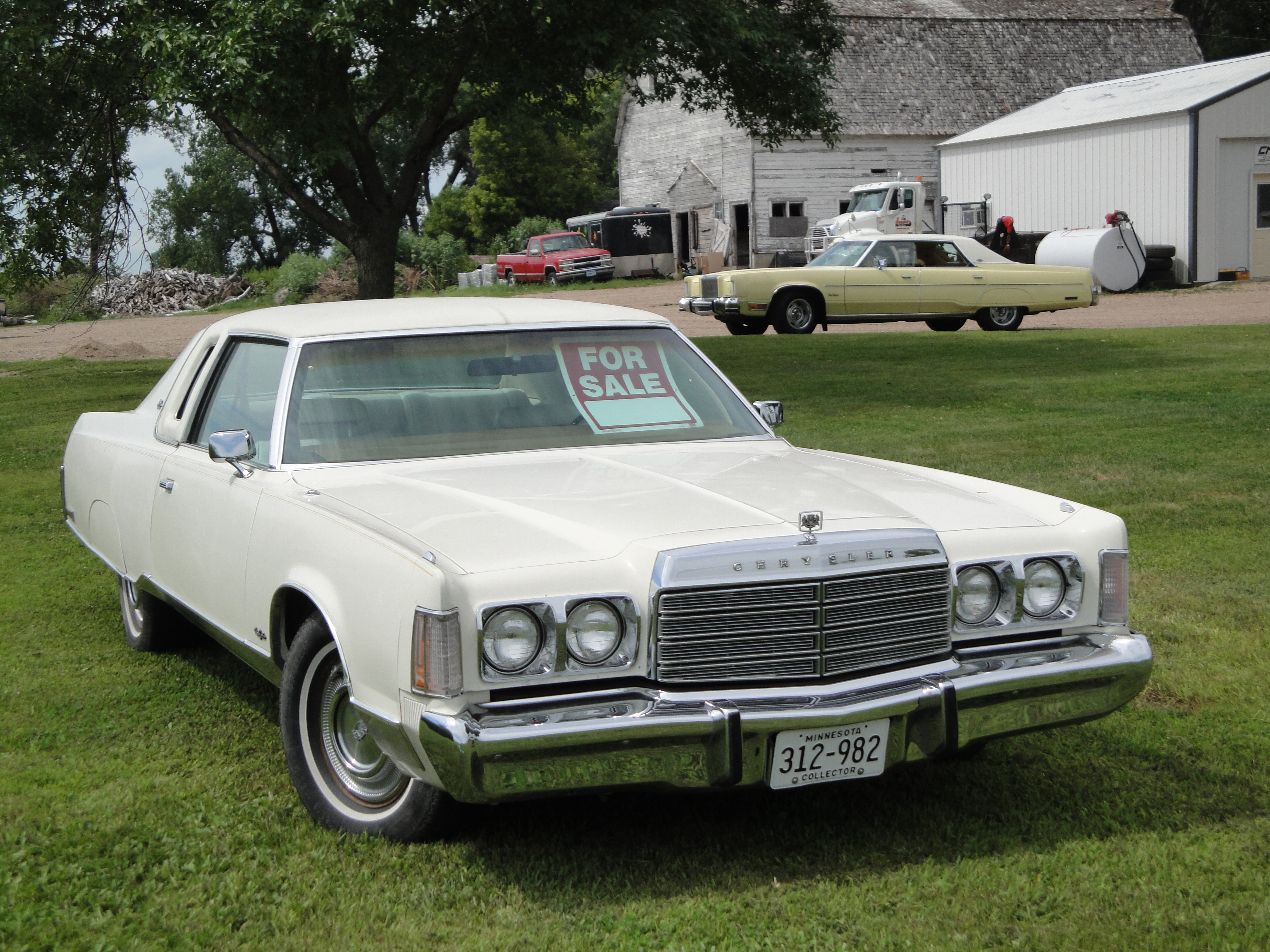 74 Chrysler New Yorker Brougham